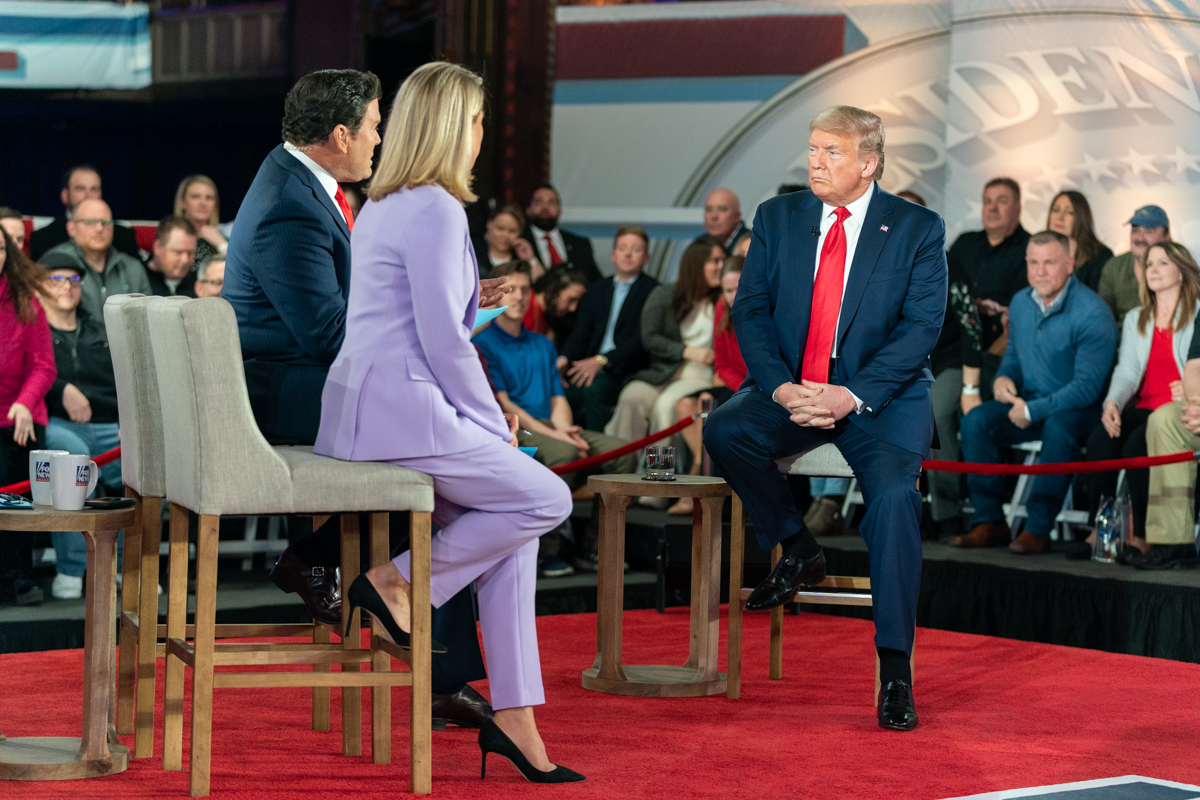 President Donald J. Trump participates in a live Fox News Channel town hall event with moderators Bret Baier and Martha MacCallum on Thursday, March 5, 2020, at the Scranton Cultural Center in Scranton, Pa. (Official White House Photo by Shealah Craighead)